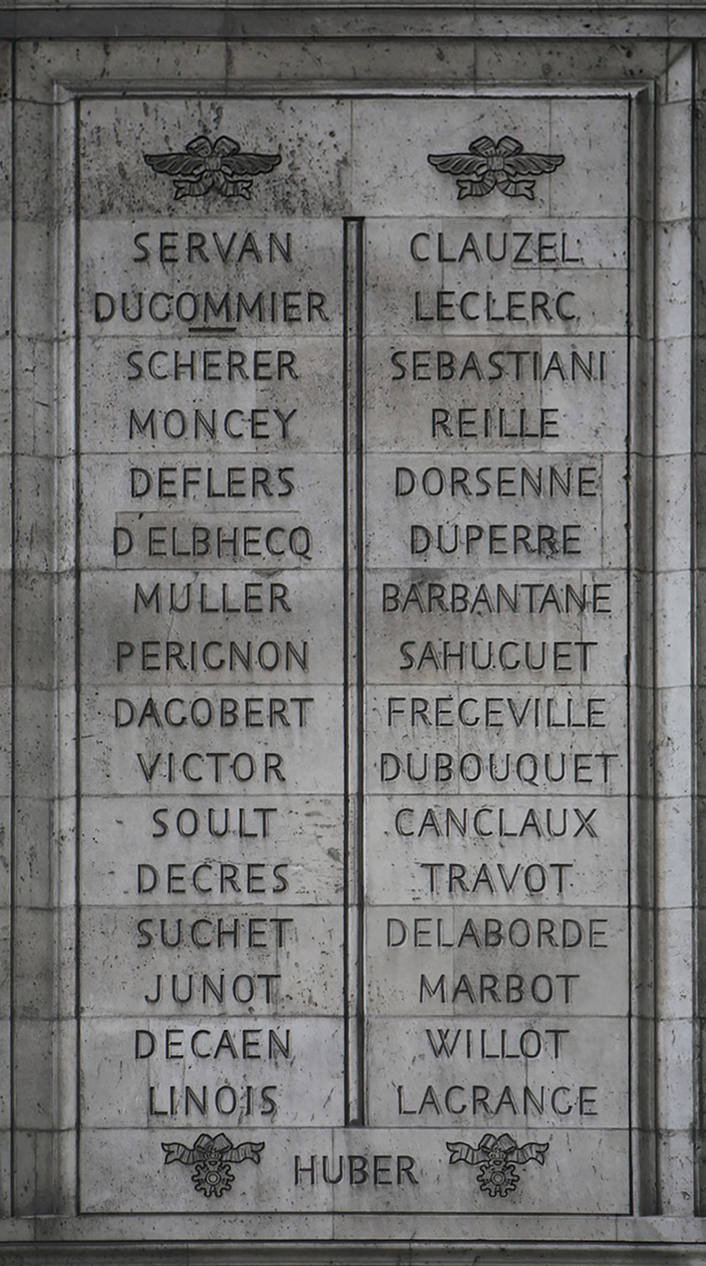 The name of General Jean Antoine Marbot (1754-1800) on the Arc de Triomphe in Paris